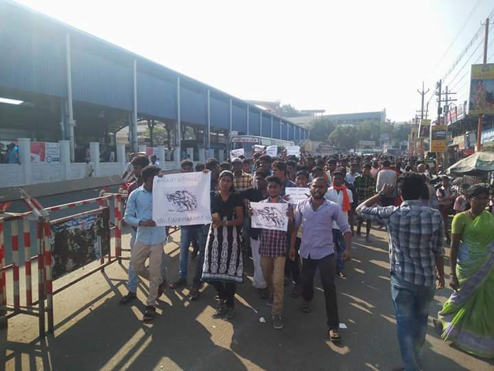 திருச்சி மத்திய பேருந்து நிலையம் அருகே மாணவர் போராட்டம்.